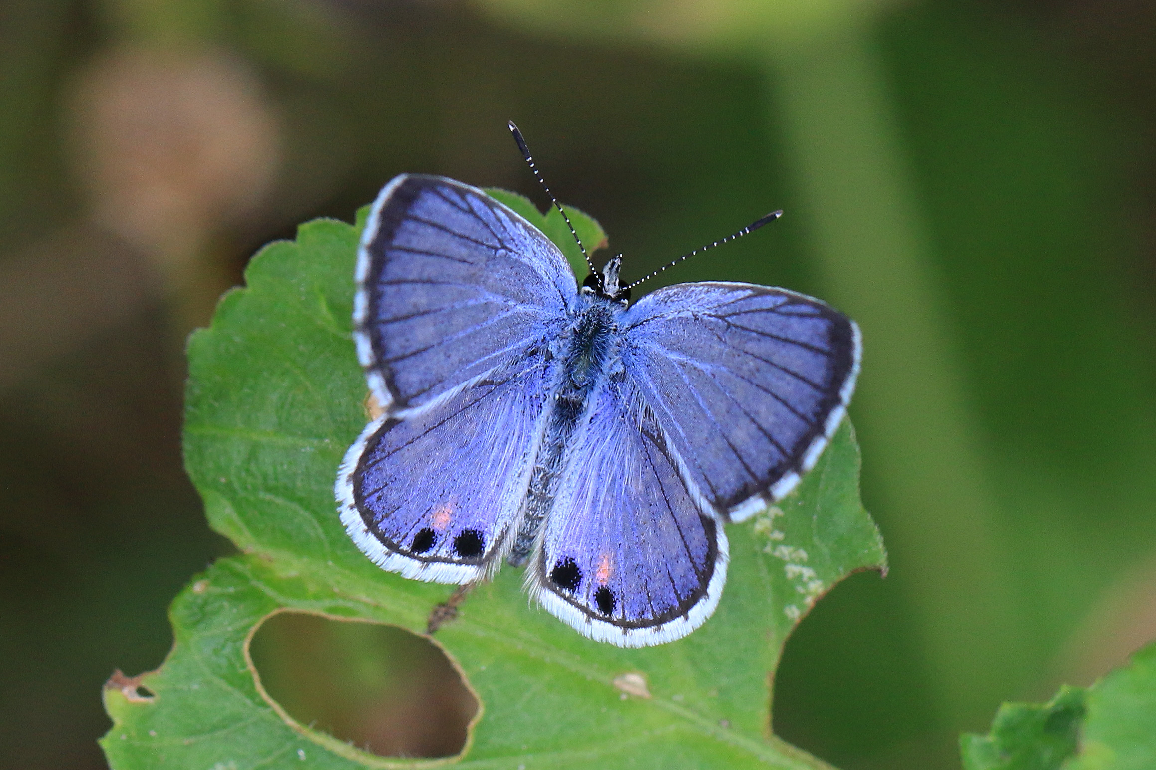 Lucas's blue (Cyclargus ammon erembis) male, Grand Cayman